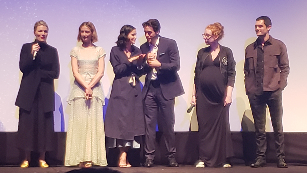 Left to right: Emma Tammi, Caitlin Gerard, Julia Goldani Telles, Ashley Zukerman, Teresa Sutherland, and Dylan McTee at a Q&A for The Wind at the Ryerson Theatre in Toronto, Ontario, Canada